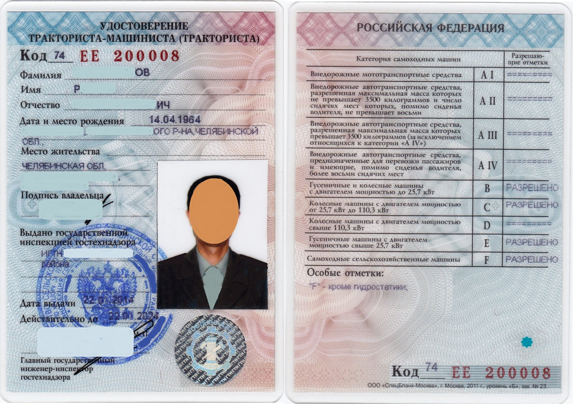 Both sides of Russian 2014 driving license